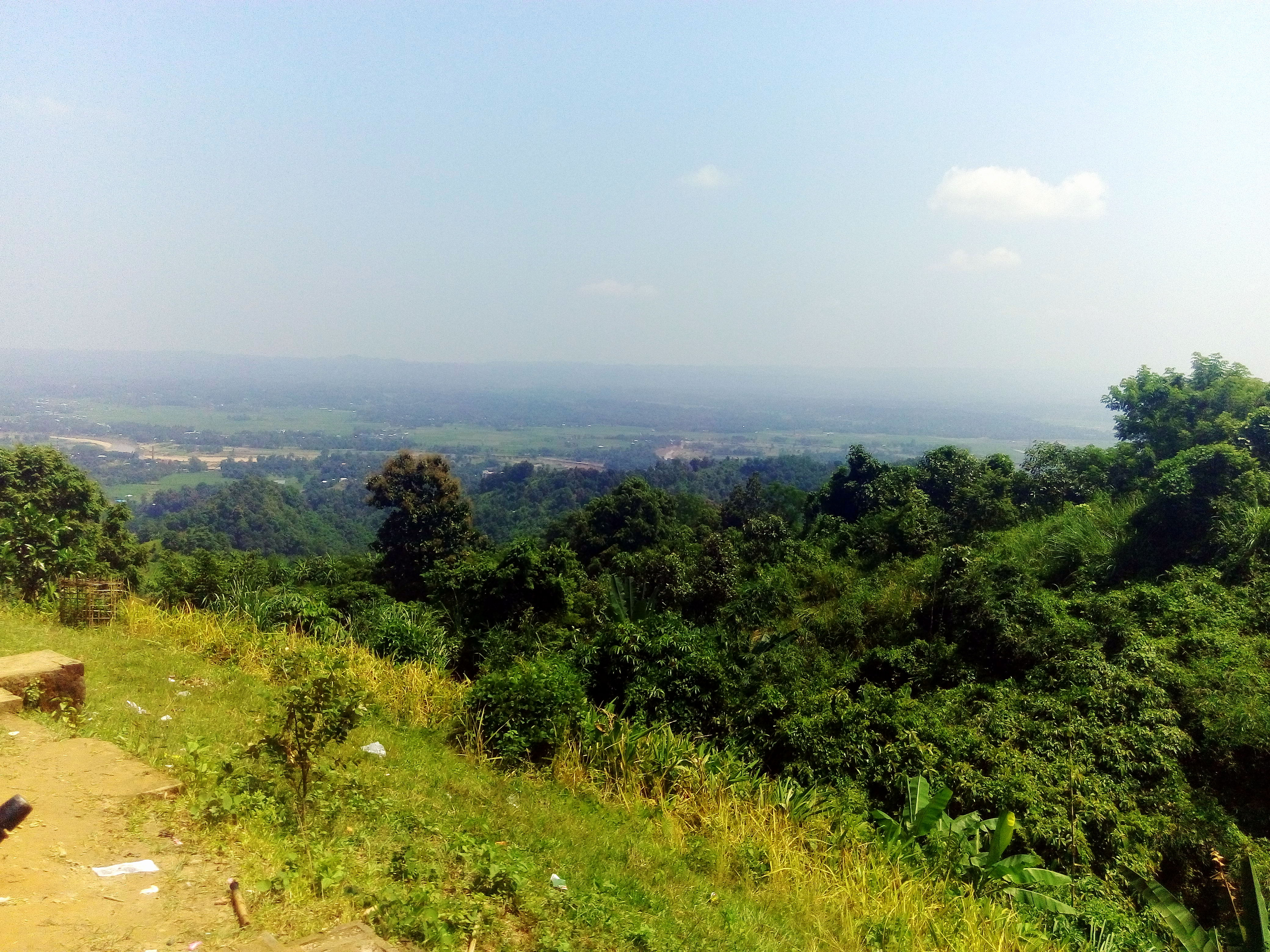 Khagrachari District